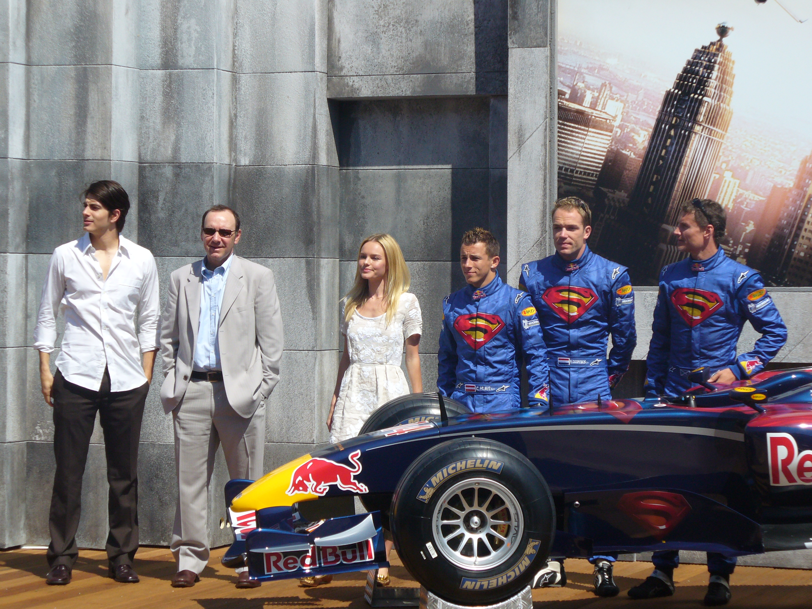 From the Monaco Grand Prix 2006. Starring actors from "Superman Returns" and Drivers from Red Bull Racing.